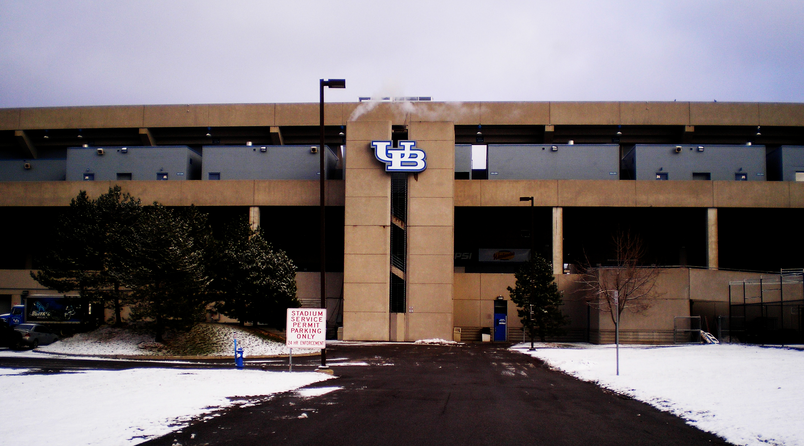 Outside the Stadium at University at Buffalo.